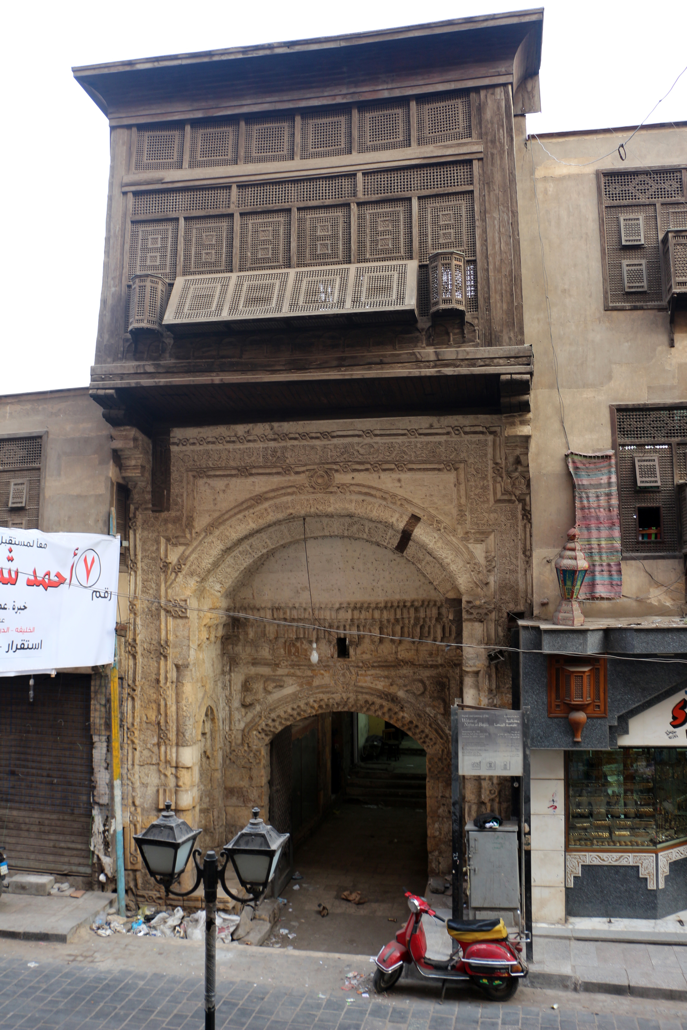 Muizz Street